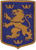 WaffenSS shields, this photo taken sparspost